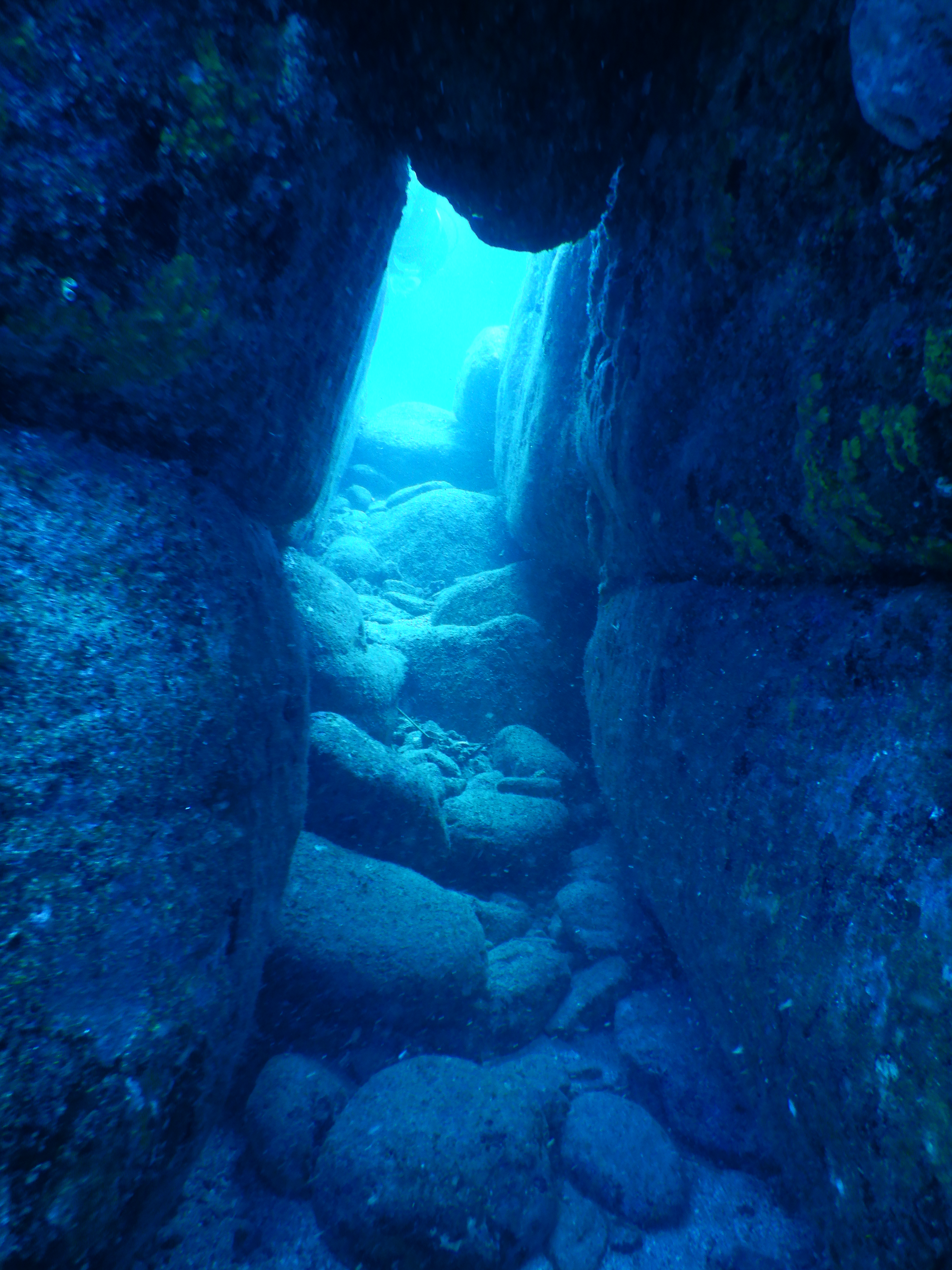 Diving excursion at Yonaguni Monument usually starts with passing through this arch, which directly leads to "Twin Megaliths".